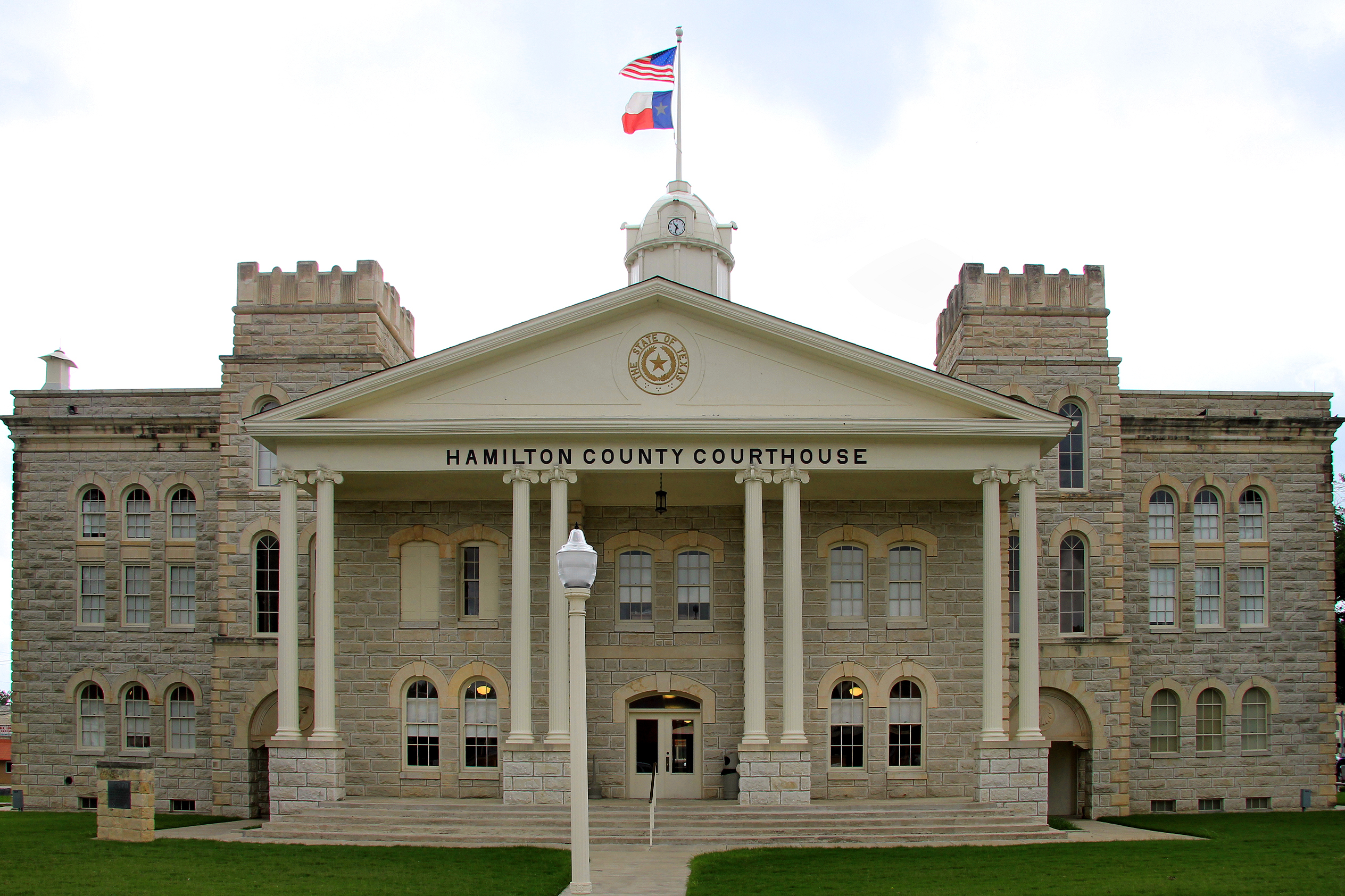 The Hamilton County, Texas courthouse, Hamilton, Texas, United States. The building was listed on the National Register of Historic Places on September 4, 1980.